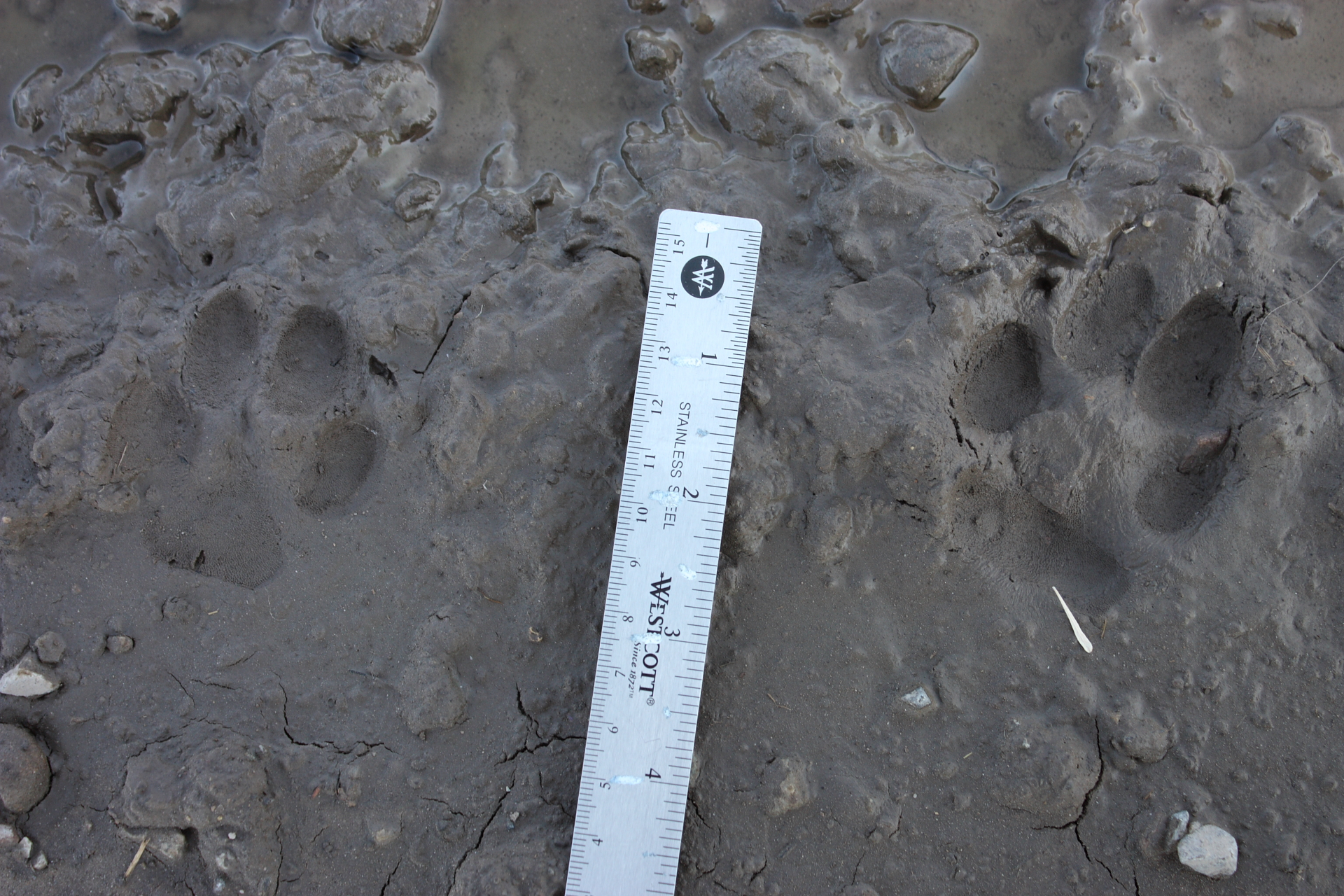 Coyote tracks in the mud of a puddle in Jackson Hole, Wyoming, USA